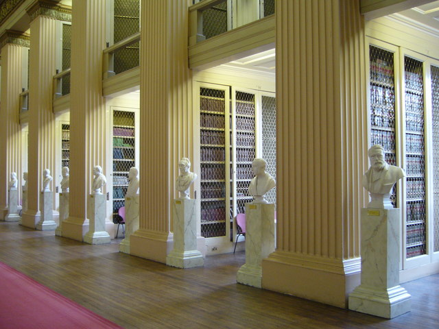 Playfair Library, South Bridge A neo-classical temple to learning, designed by William Playfair, the 138-foot-long hall was the University's main library until the collection was dispersed to new buildings following expansion in the 1960s.